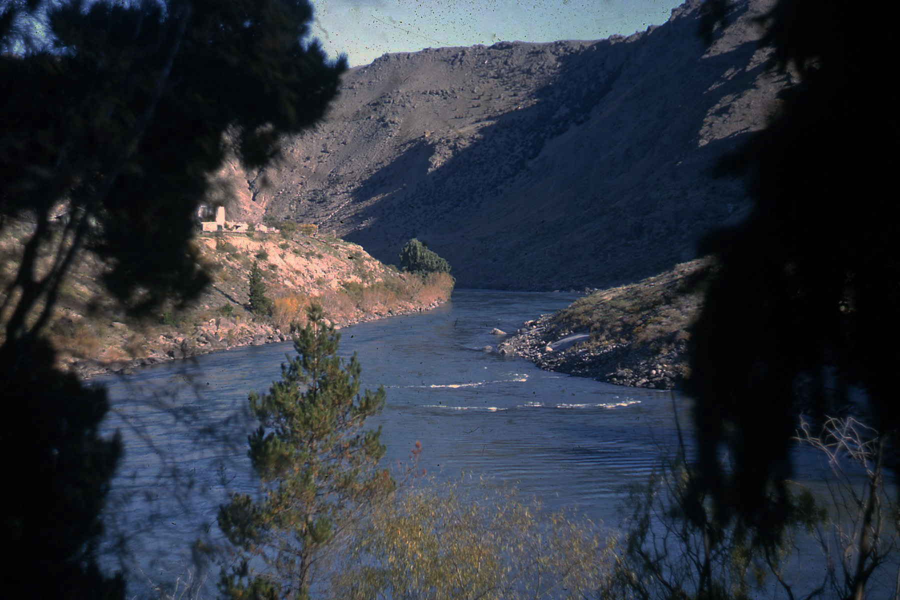 Clutha River, Otago, New Zealand, 1968